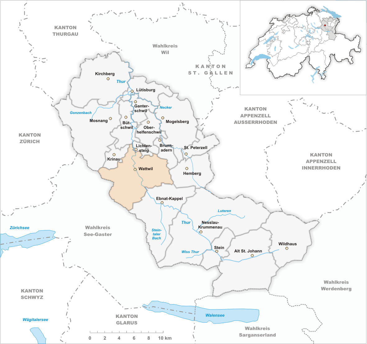 Municipality Wattwil